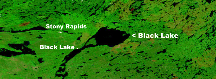 Portion of NASA map showing Black Lake in northern Saskatchewan (Captions have been added by Kayoty)